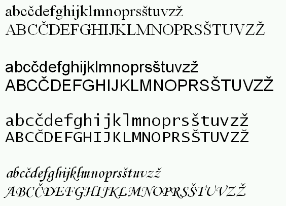 Slovenska abeceda v pisavah Times New Roman, Arial, Lucida Console in Monotype Corsiva Slovene alphabet in various fonts (Times New Roman, Arial, Lucida Console and Monotype Corsiva) Slowenisches Alphabet (in den Schriften Times New Roman, Arial, Lucida Console und Monotype Corsiva)